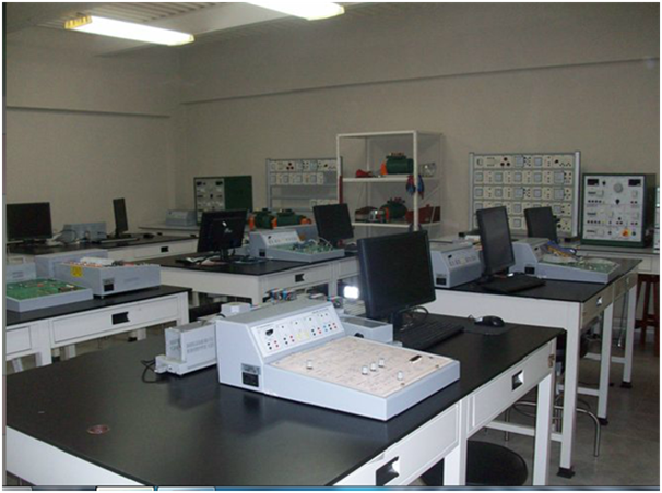 Laboratorio de electrónica II